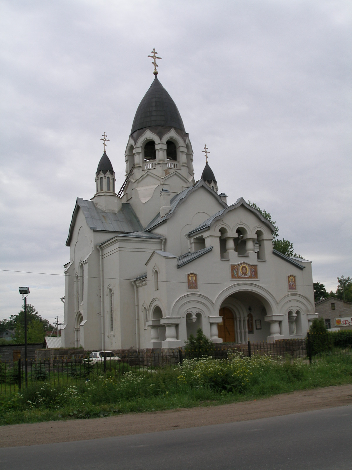 Church in Taitsy (Leningrad oblast)